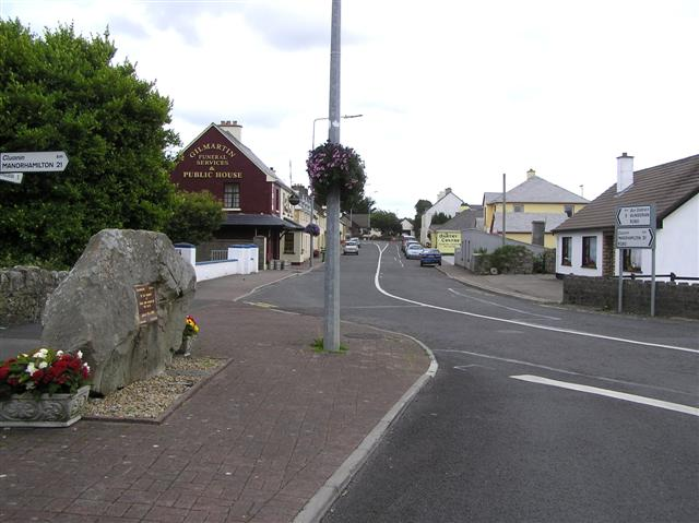 R280, Kinlough My attention was drawn to the large stone on the left